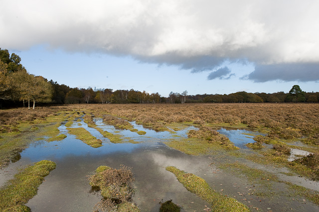 Warwickslade Cutting: surface water This water was lying on the slade after much heavy rain. It was flowing quite fast towards the camera, and eventually joined the new stream partly at 1565966 and partly further south at 1584386.